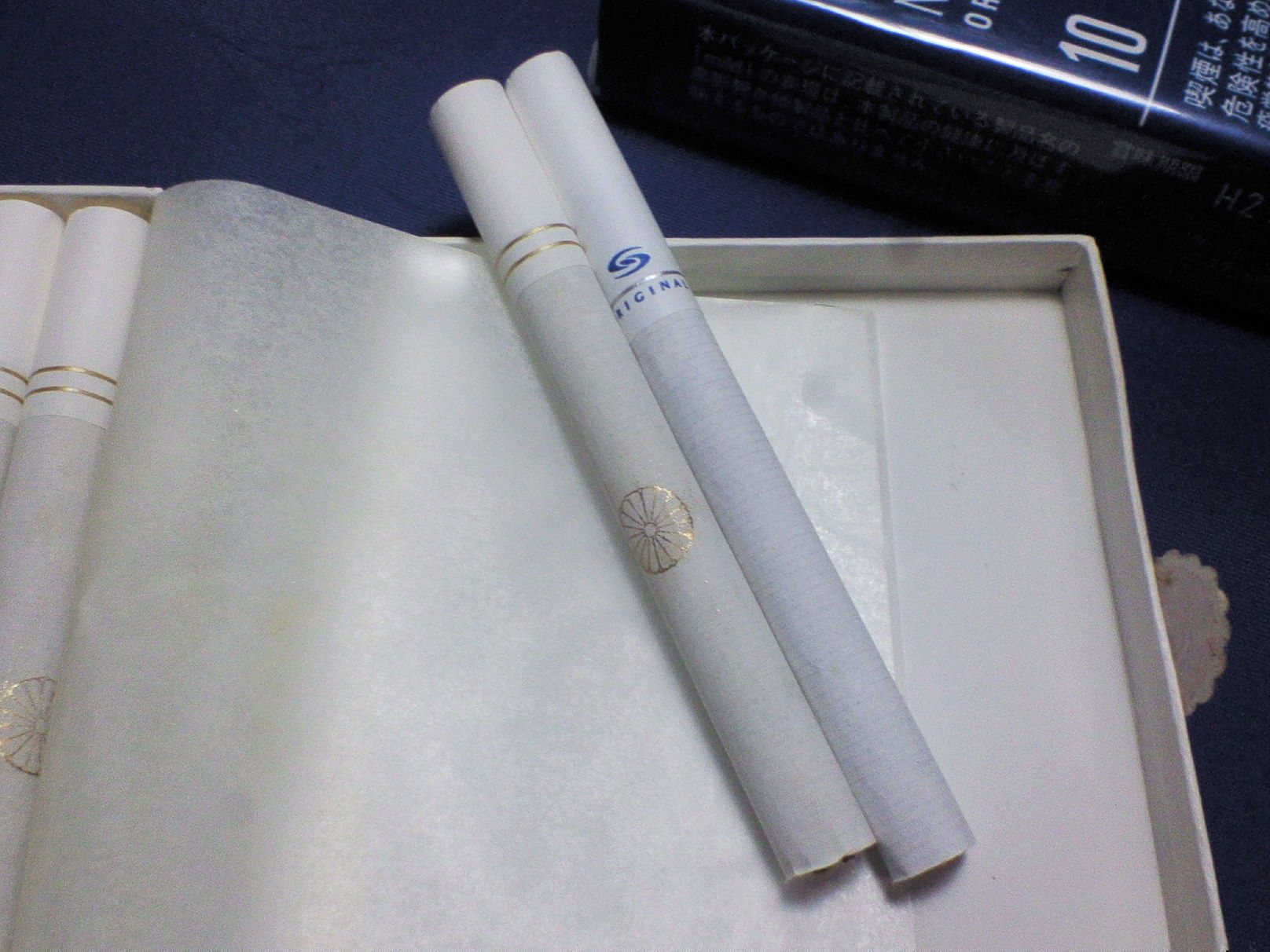 Japanese Imperial Tobacco and Mild Seven .